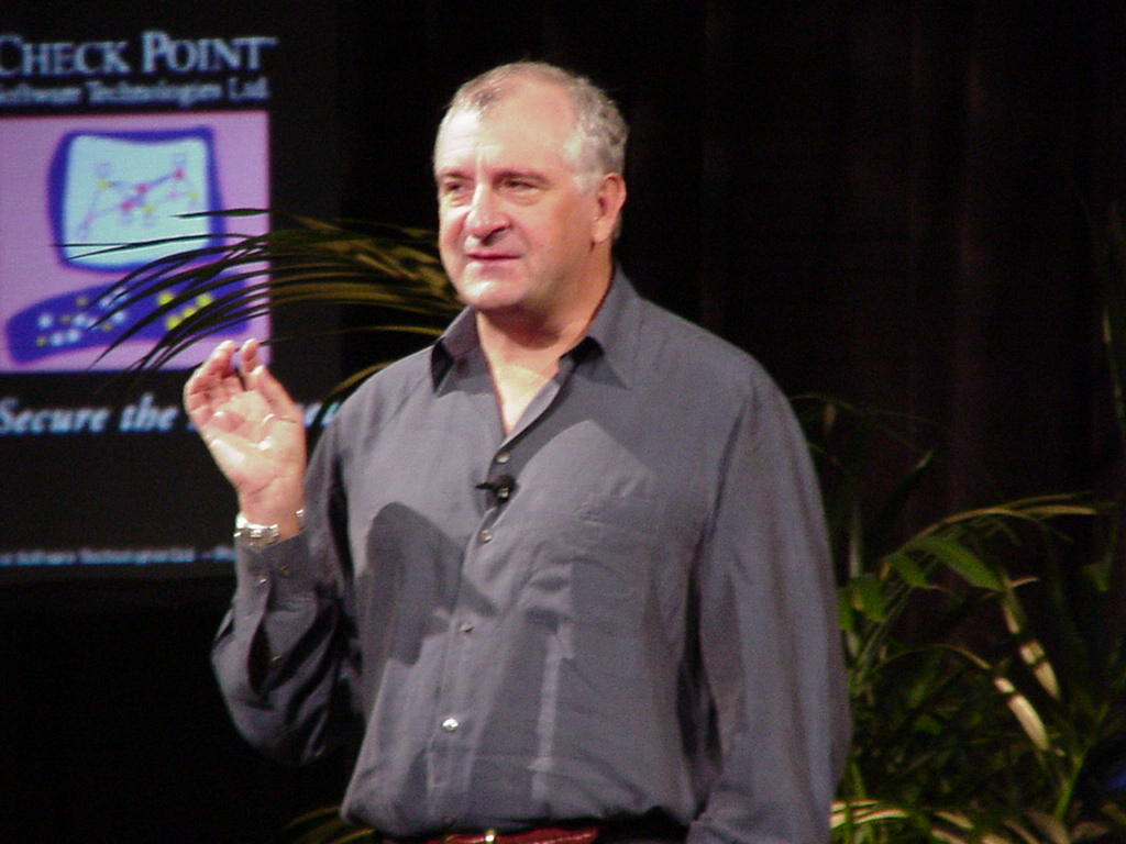 Douglas Adams as a keynote speaker at Internet Security Conference in San Francisco, March 15-17, 2000[1]